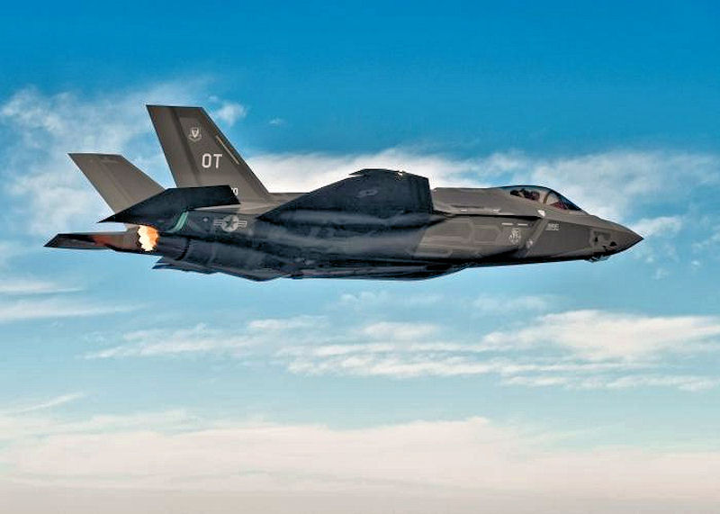 422d Test and Evaluation Squadron Lockheed Martin F-35A Lightning II 10-5020